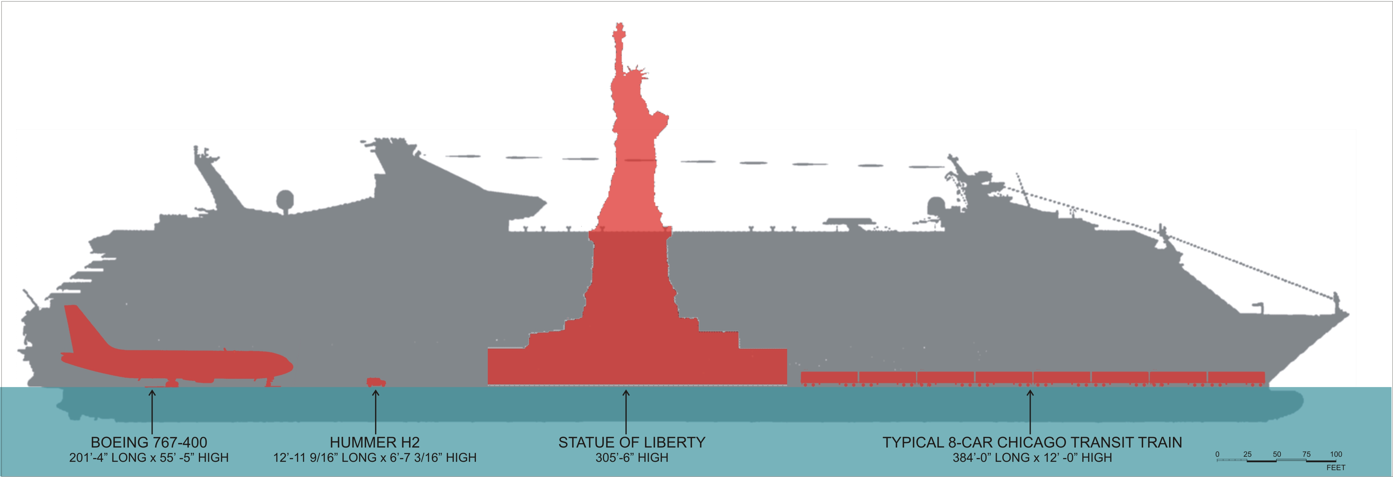 This file was created by user Gary Joseph 03:53, 29 March 2007 (UTC) using CorelDraw 12.